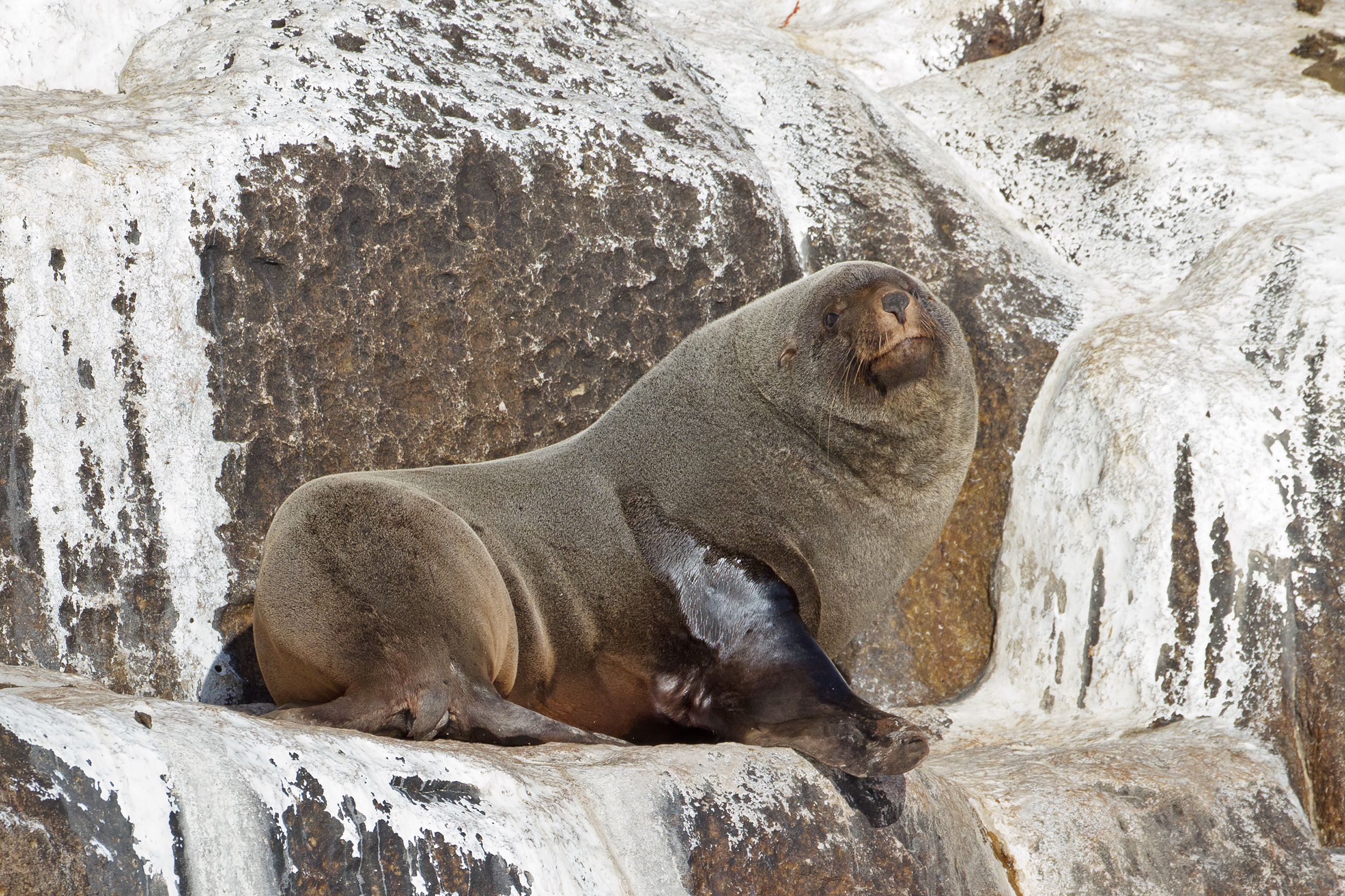 Brown fur seal (Arctocephalus pusillus) hauling-out on the Hippolyte Rocks off the east coast of Tasmania, Australia